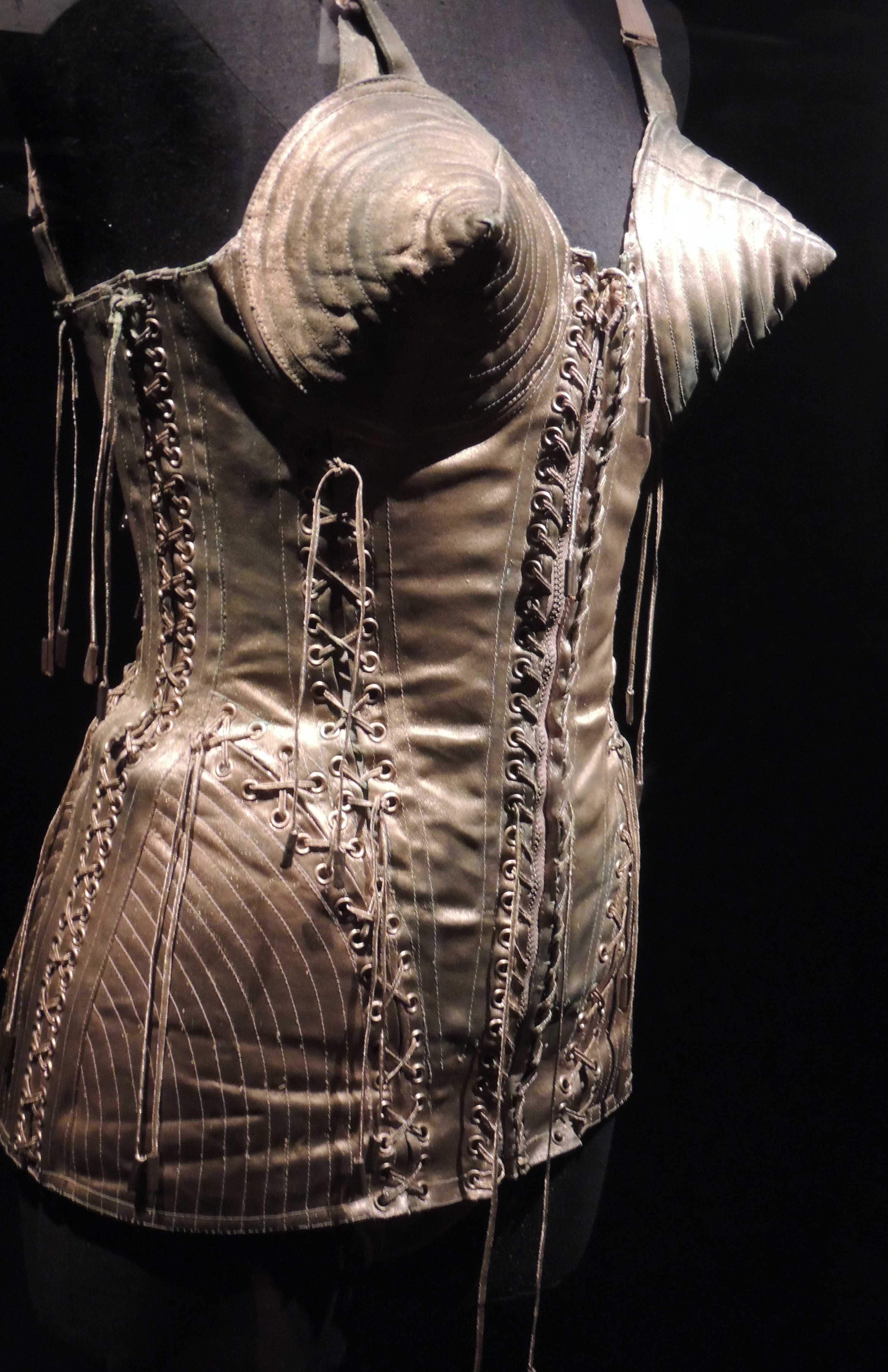 Photo of the iconic corset made by fashion designer Jean Paul Gaultier that Madonna wore during her 1990 Blond Ambition World Tour.